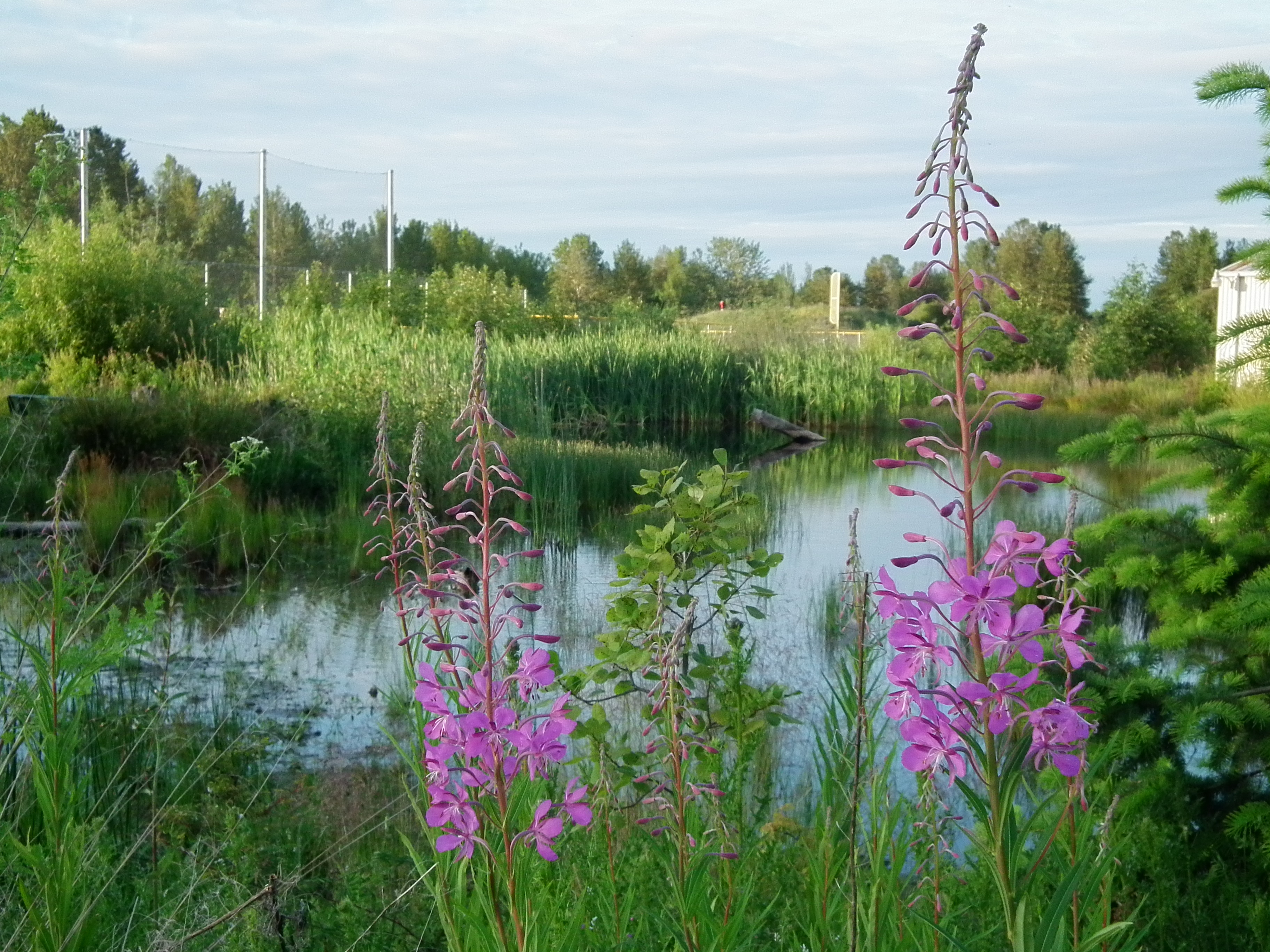 Part of a wetland restoration project in Magnuson Park, Seattle, Washington, USA. Magnuson Park is the former location of Naval Station Puget Sound, which included runways, hangars, and other buildings.